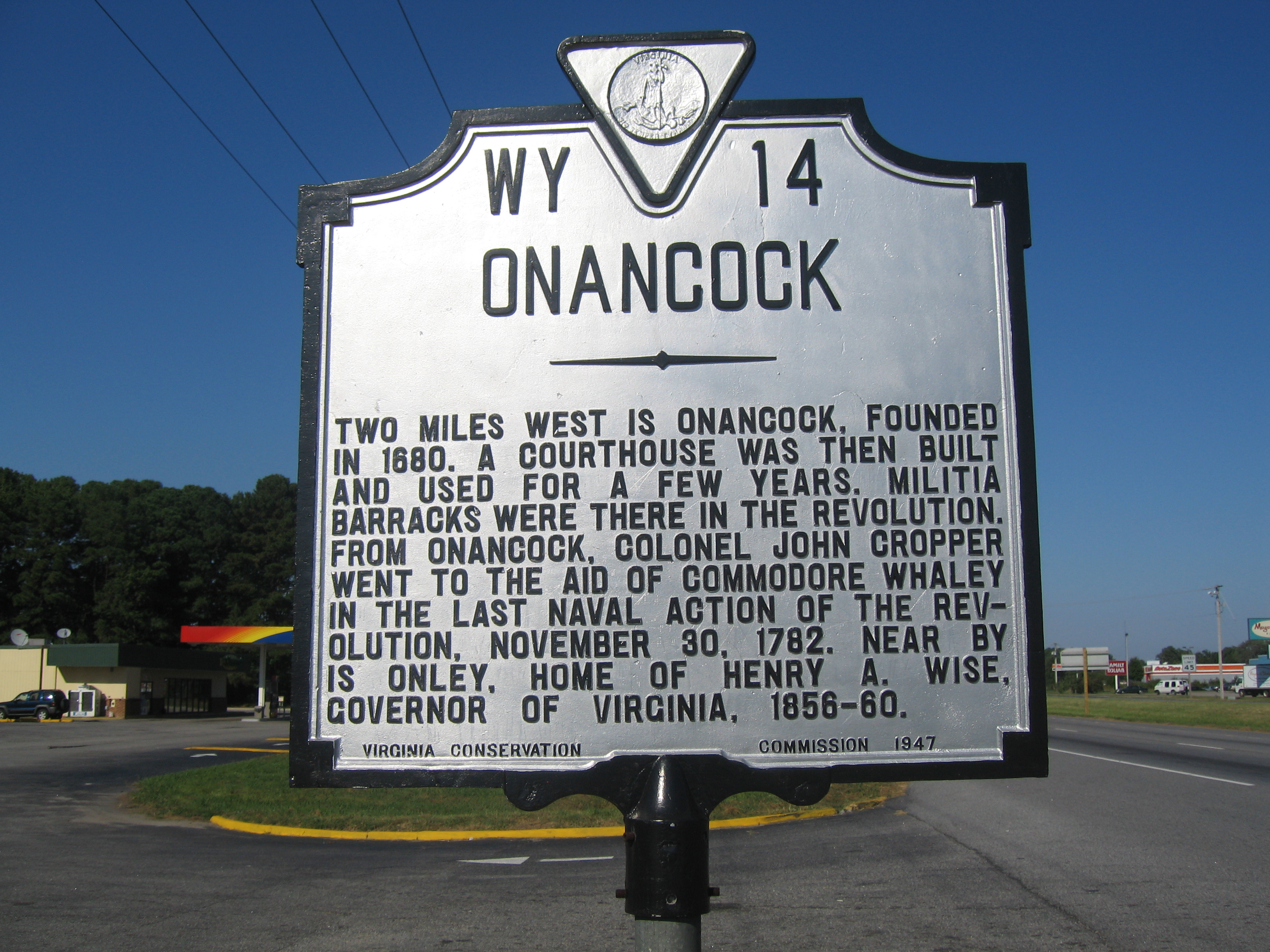 Historical marker designating the town of Onancock. This marker is located on the west side of U.S. Route 13 (Lankford Highway) about 75 feet north of West Main Street in Accomack County, Virginia between mile markers 112 and 113 near Onancock.